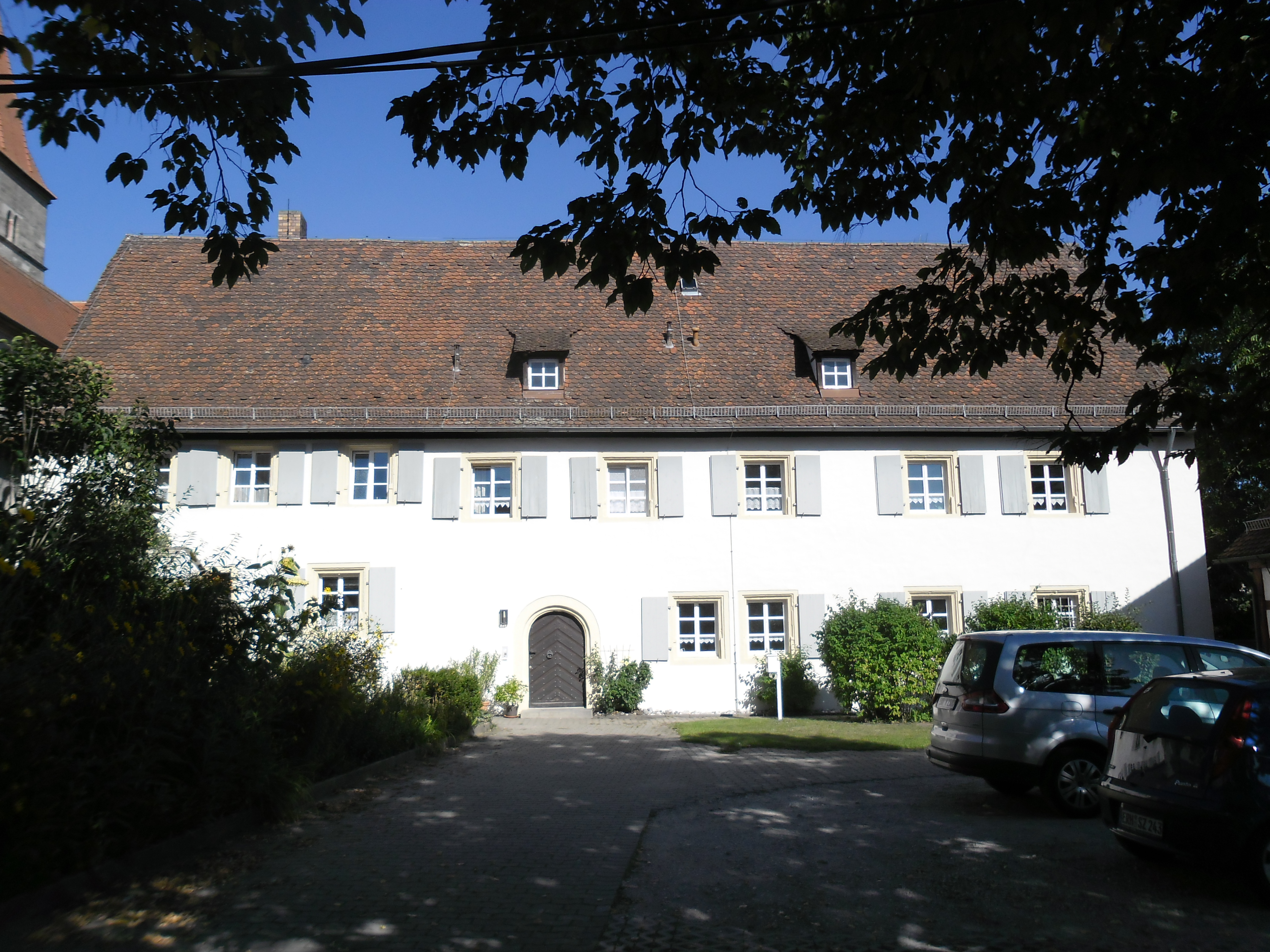 Parish house in Münchaurach